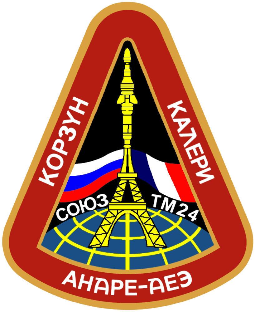 The official crew patch for the Russian Soyuz TM-24 mission, which delivered the EO-22 crew to the space station Mir.